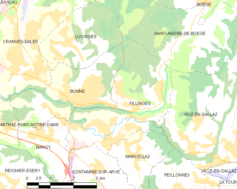 Map of French municipality Fillinges